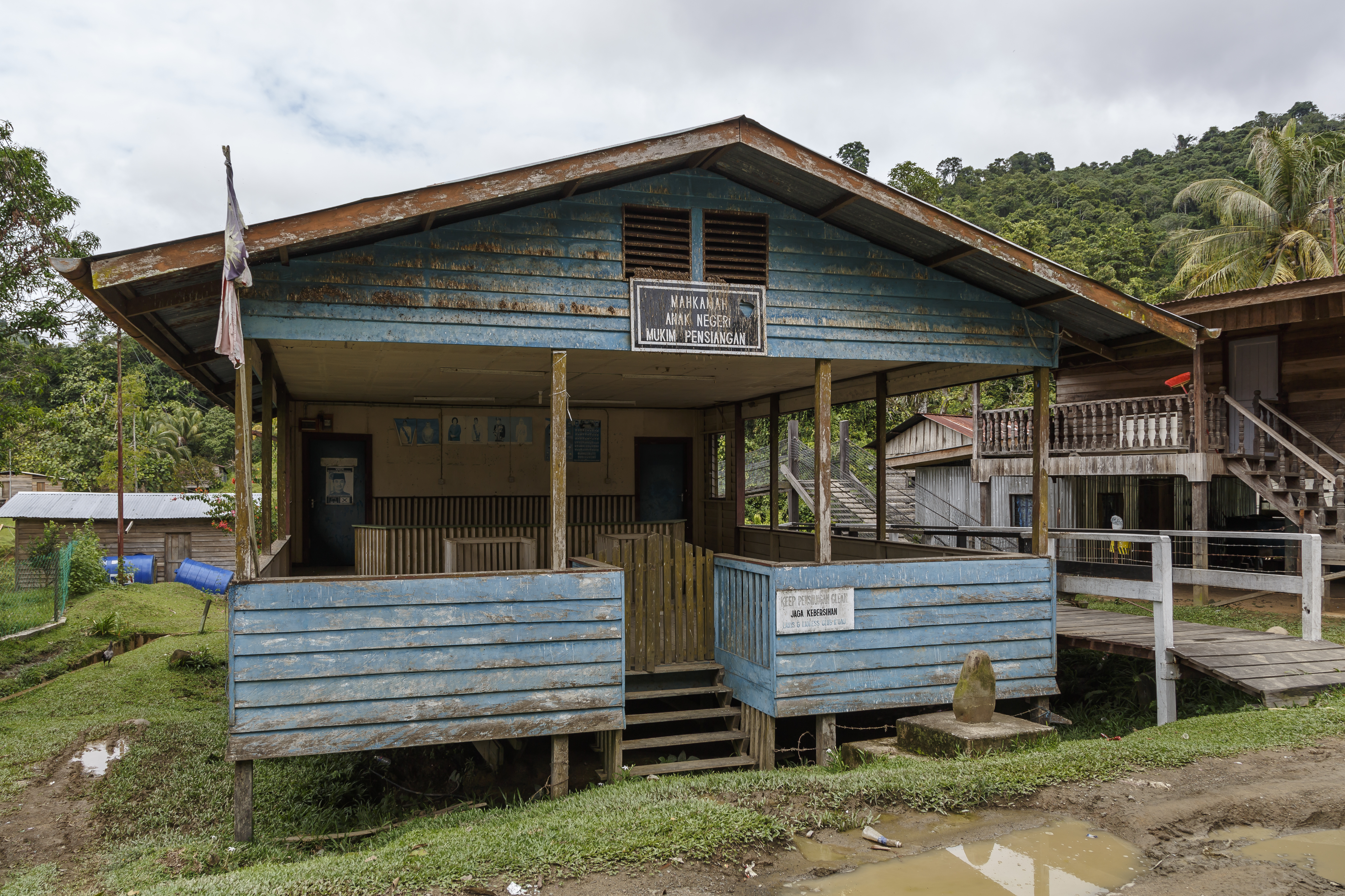 Pensiangan, Sabah, Malaysia: Native Court (Mahkamah Anak Negeri Mukim Pensiangan